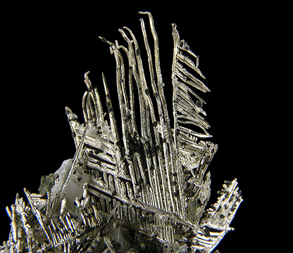 Silver Locality: Batopilas, Andres del Rio District, Municipio de Batopilas, Chihuahua, Mexico (Locality at ) Size: 6.6 x 4.7 x 1.2 cm. These specimens are some of the most easily recognizable, dramatic and highly sought after Silver specimens from the Western Hemisphere. This superb specimen is the finest example of this specific type of these specimens that I have handled. It is an outstanding piece filled with bright, sharp, Spinel-law twinned, "Herringbone"-style Silver crystals forming a "fan" or "sail"-shaped specimen. These classic "sails" are part of what makes Batopilas such a great locality. They are immediately distinguished from all other Silver specimens around the world. Overall, this is a highly attractive classic Silver specimen from this important Mexican locality.